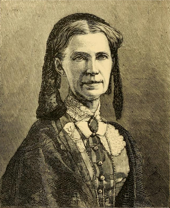 From an 1881 publication.